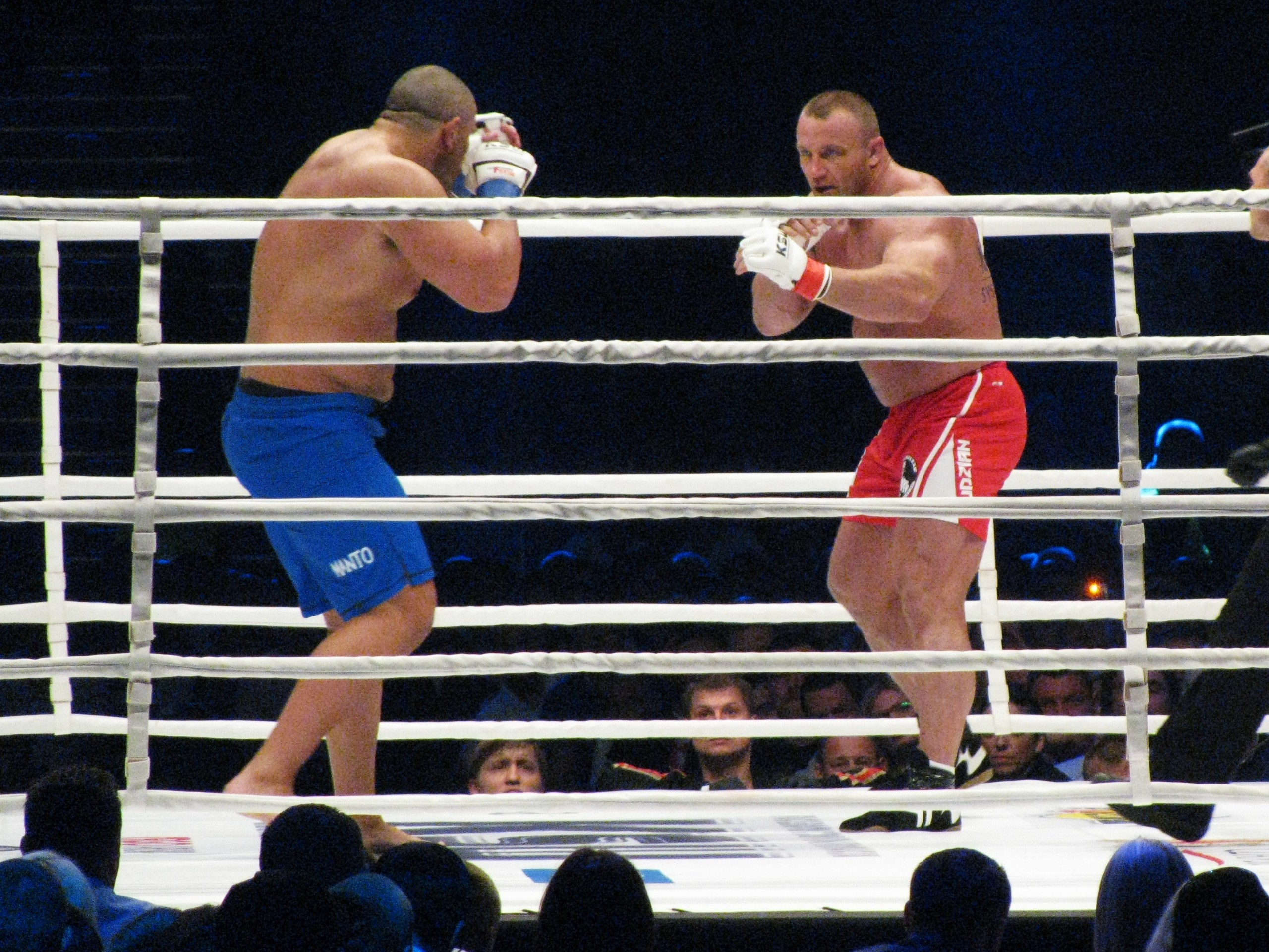 Mariusz Pudzianowski (Poland) vs James Thompson (England) in Gdańsk, Poland.